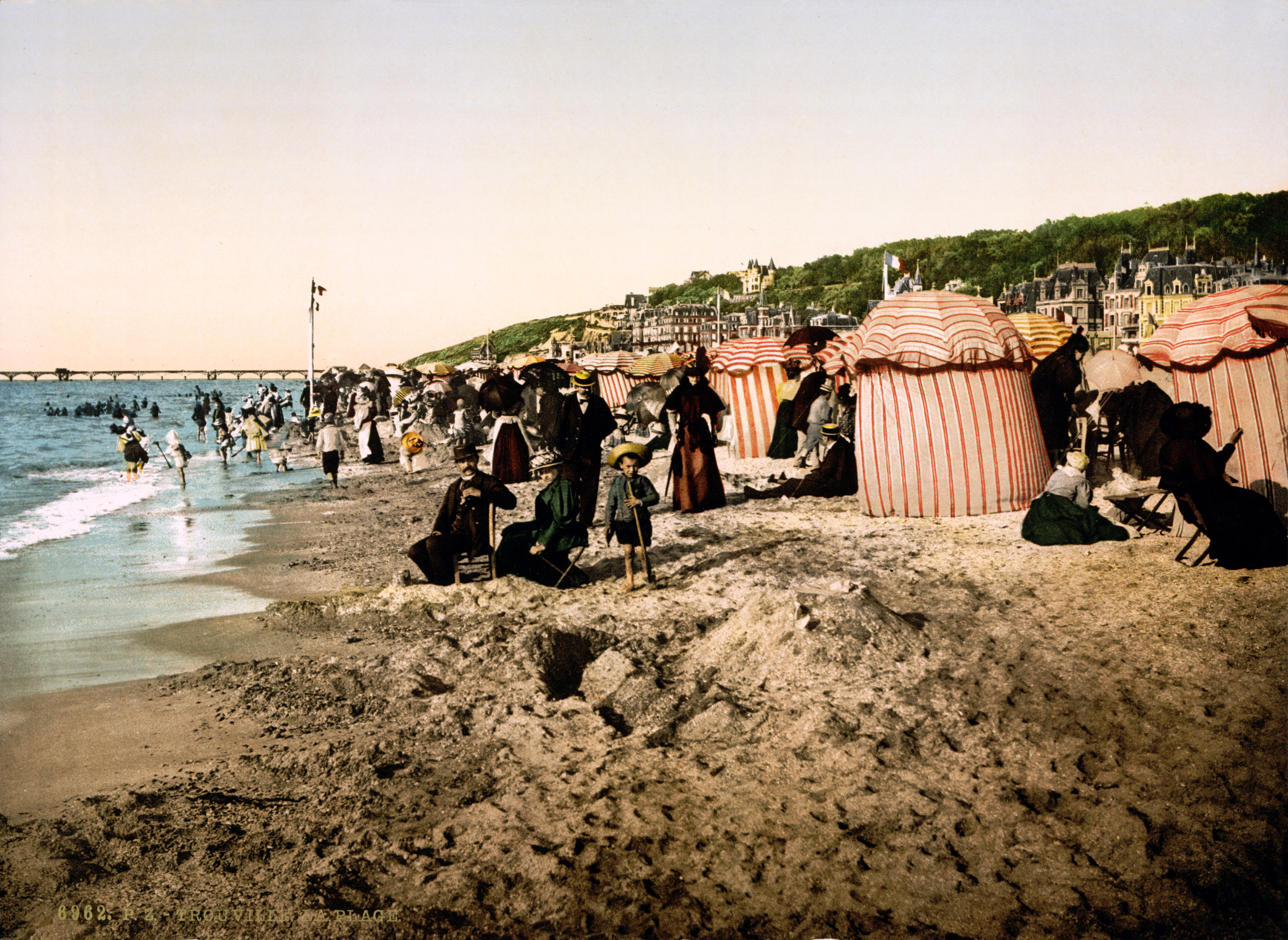 The beach at bathing time, Trouville, France.